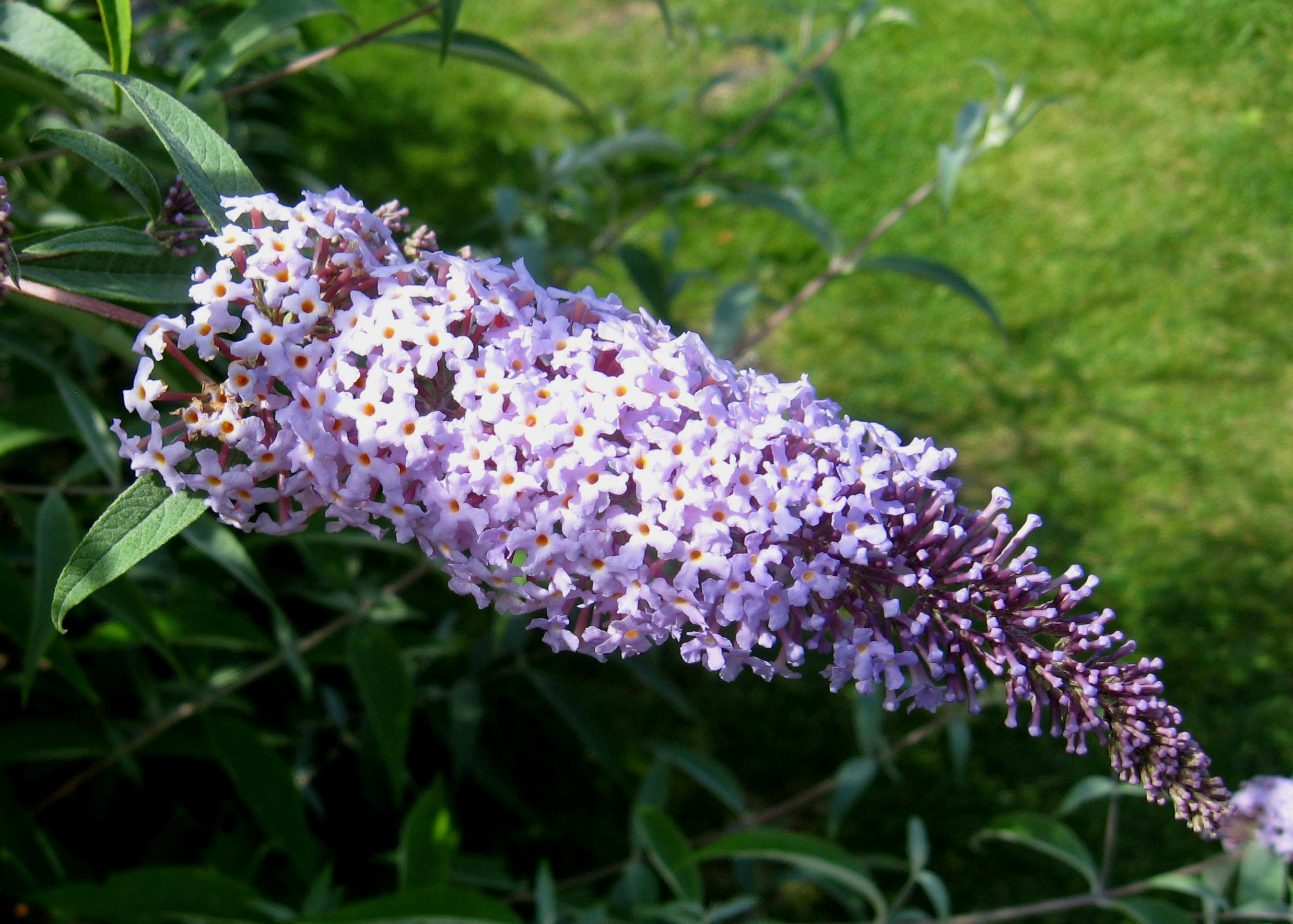 Photo of the panicle of Buddleja davidii cultivar 'Autumn Beauty', taken Portchester, UK.